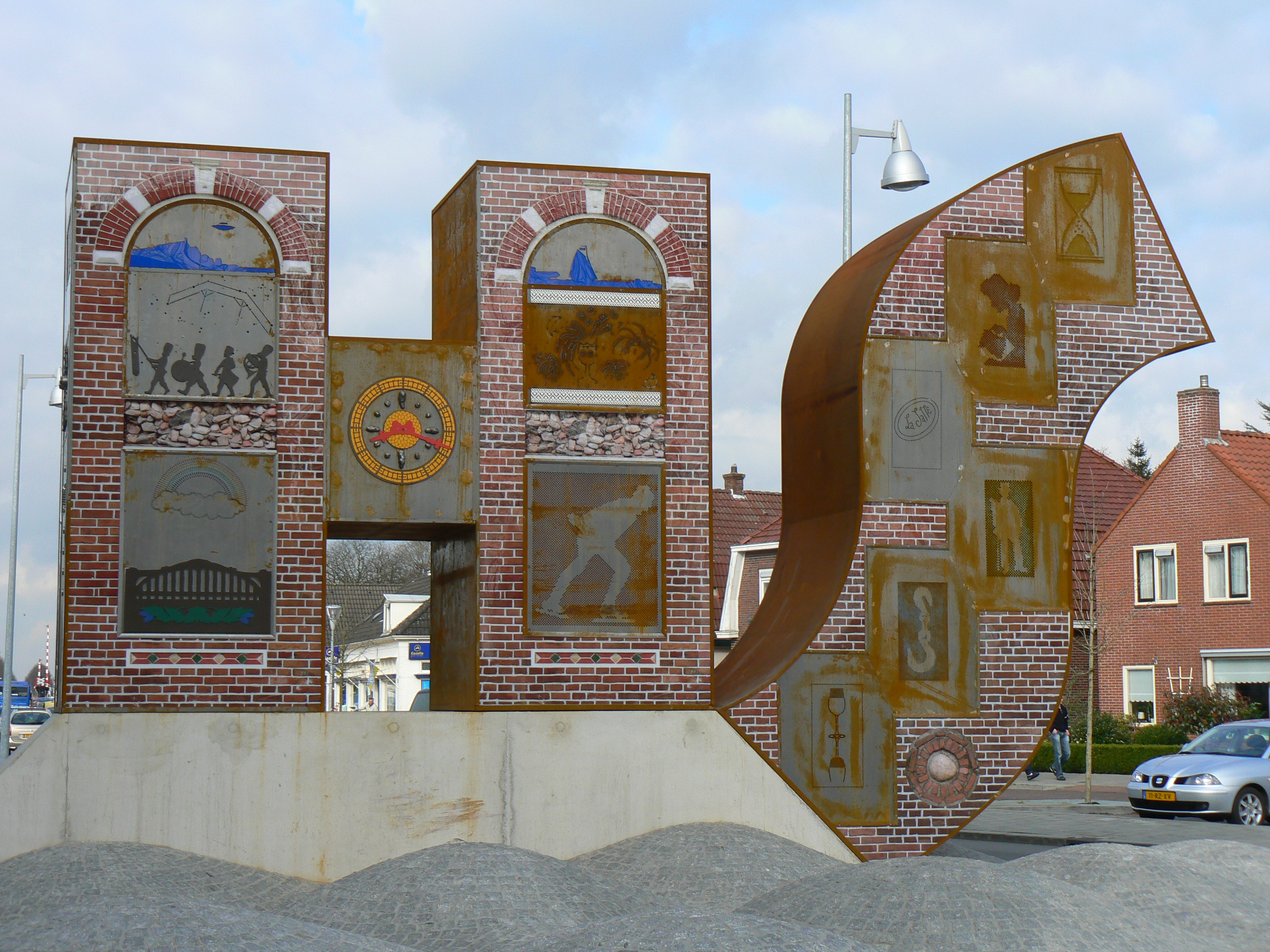 sculpture HS (2008) by Patty Struik and Albert Goederond in Hoogezand/The Netherlands